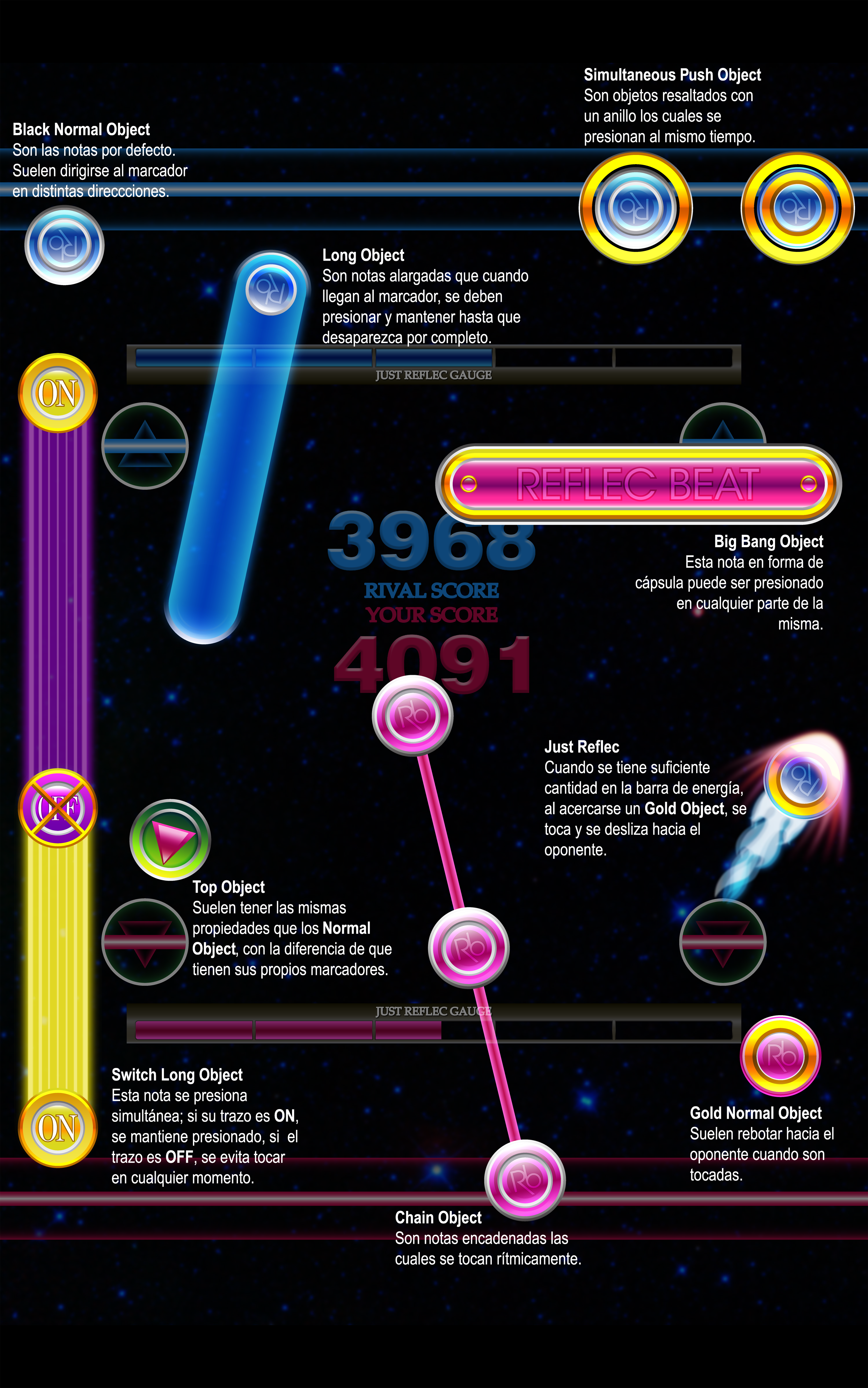 A note mapping explanation from Reflec beat.